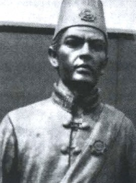 Tirtayasa (1631–1695), complete stylized name Sultan Ageng Tirtayasa, also known as Ageng and Abulfatah Agung, was the sultan of Banten (on Java in modern Indonesia) during the kingdom's golden age.